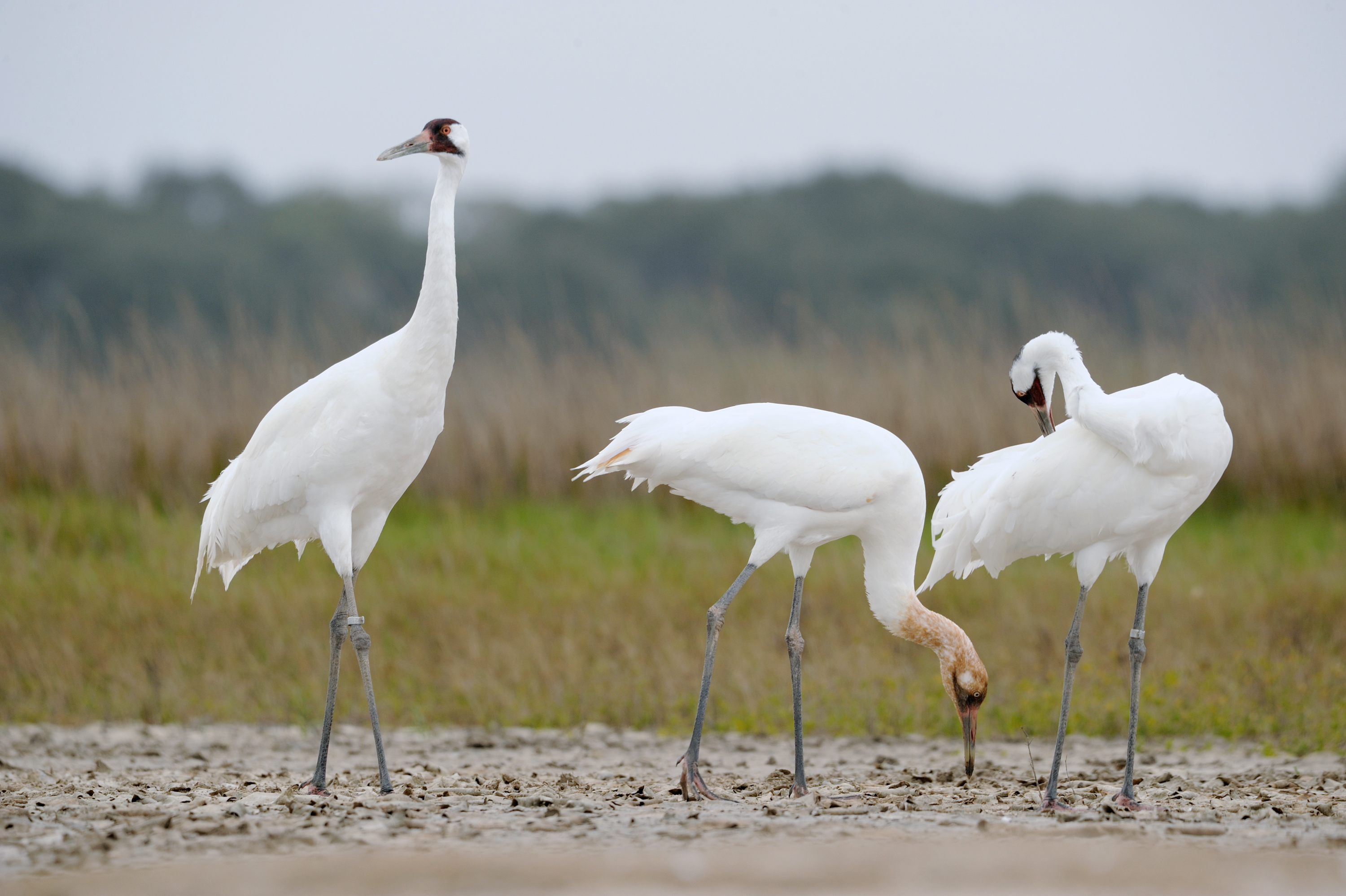 Three Whooping Cranes in Aransas National Wildlife Refuge, Texas, USA.